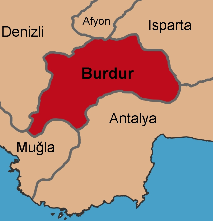 Neigbours of the turkish province Burdur.